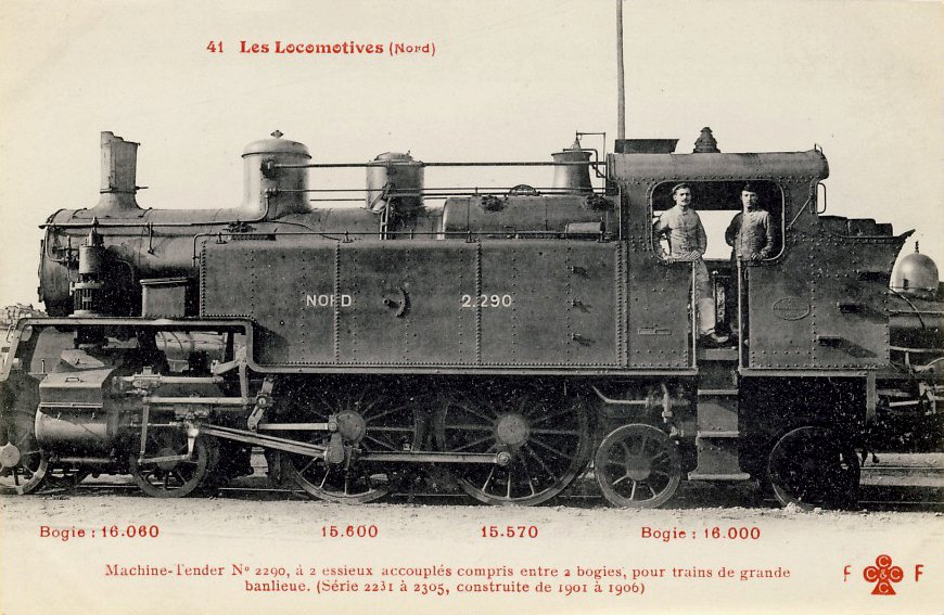 Nord 222 2-290